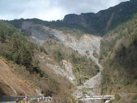 Bedrock landslide on cross-island highway, Central Range, Taiwan.